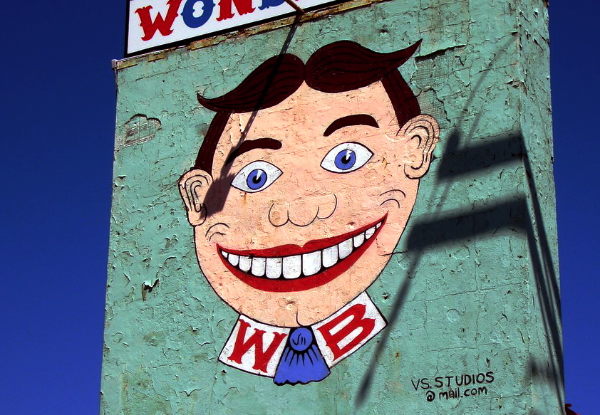 Photo of Tilly on the Wonderbar, Asbury Park, New Jersey.